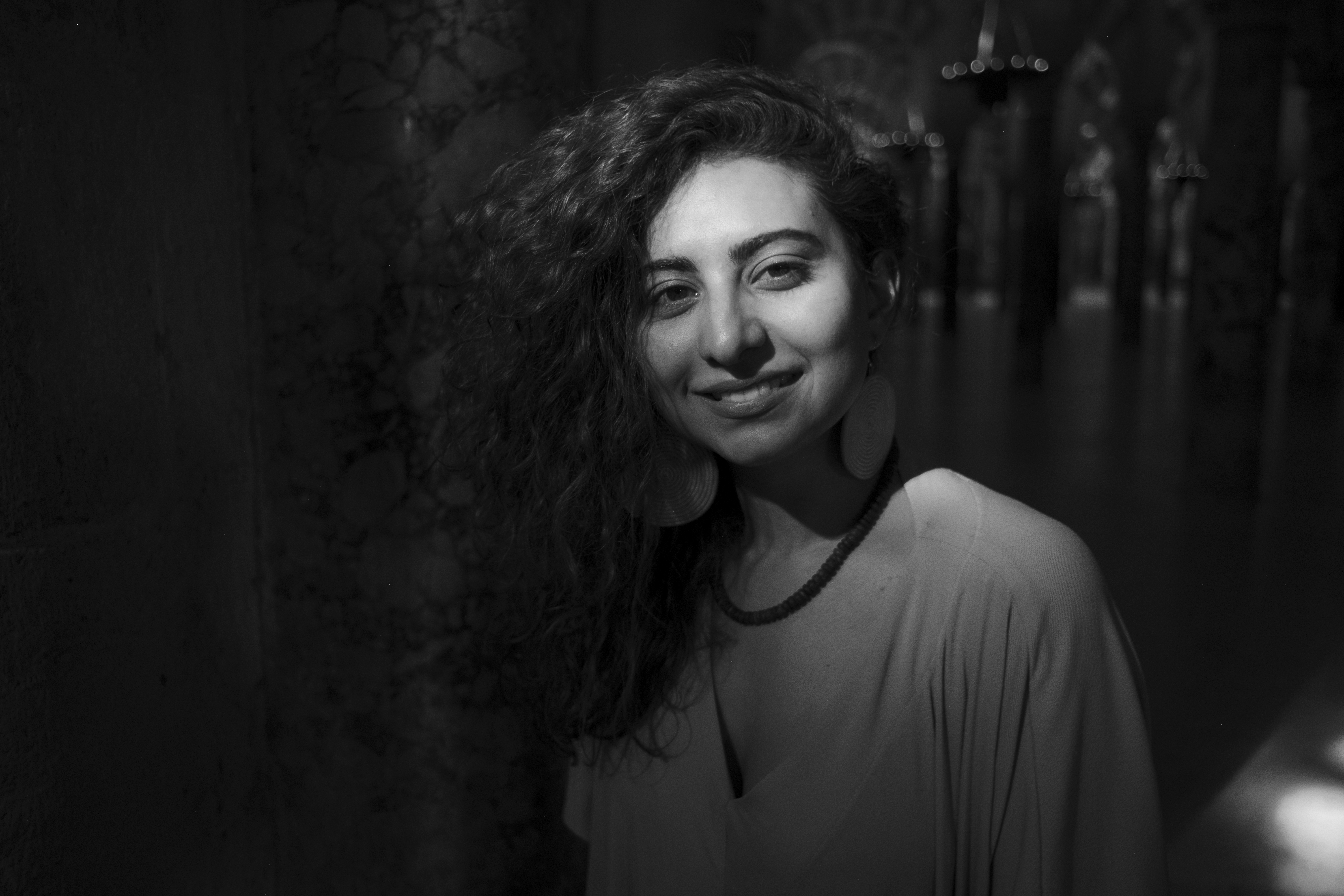 South African photographer Gulshan Khan in Cordoba, Spain, 2019